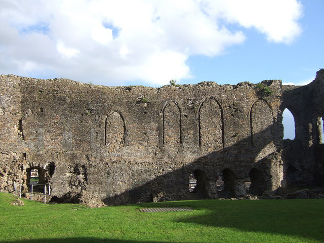 HaverfordwestCastle curtain wall